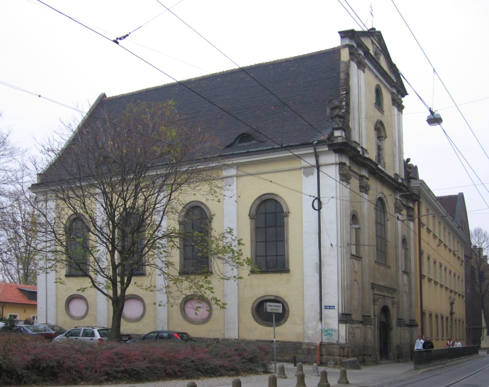 Wyspa Piasek - Sand Island on Oder River eastern church of St. Cyril & St. Methodius